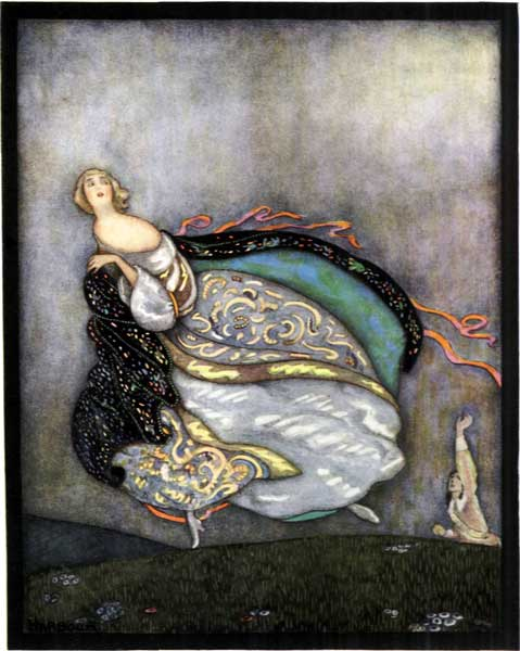 From MY BOOK OF FAVOURITE FAIRY TALES ILLUSTRATED BY JENNIE HARBOUR.